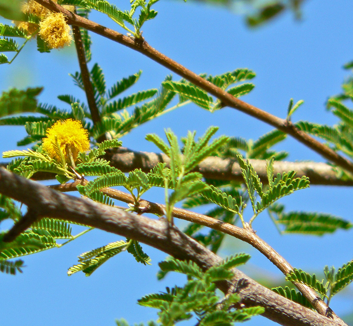 Photo of Acacia smallii on the University of Nevada, Las Vegas campus